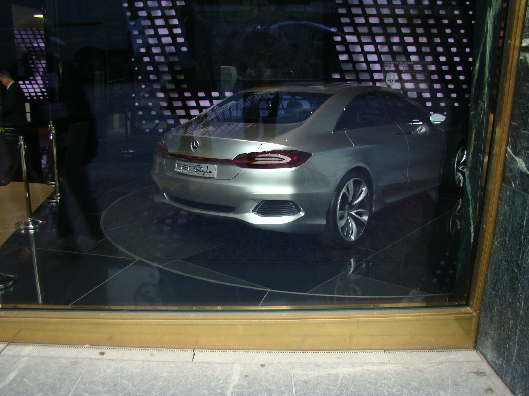 Mercedes-Benz_F800